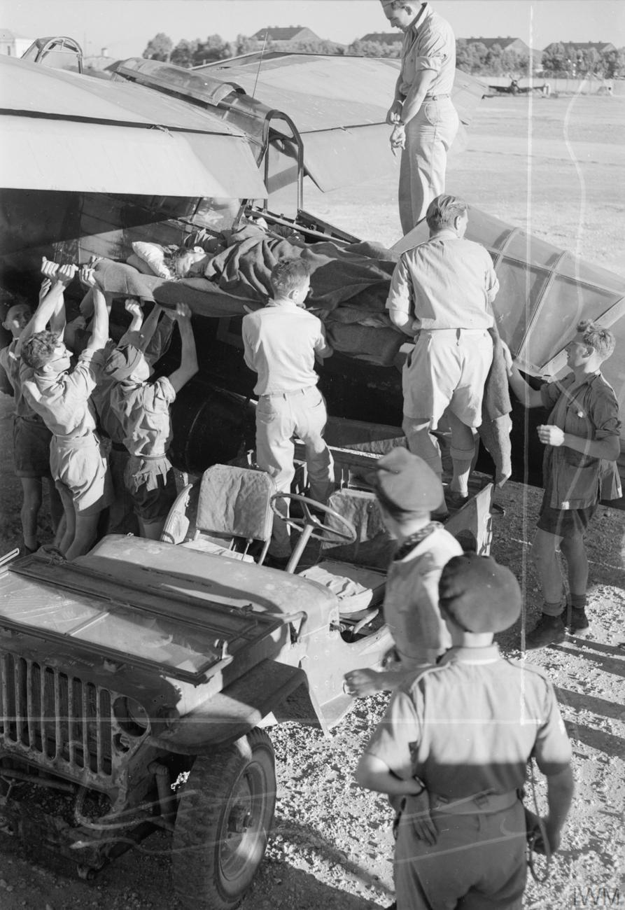 Royal Air Force- Italy,the Balkans and South-east Europe, 1942-1945. RAF ground crews and American medical orderlies remove a stretcher bearing Lieutenant John Giannaris, US Army, from the rear cockpit of a Westland Lysander Mark III(SD) of No. 148 (Special Duties) Squadron RAF, at an airfield in Italy following his evacuation from German-occupied Greece. Giannaris, an American OSS officer leading a Greek guerilla group, was badly wounded while attempting to sabotage part of the Athens-Salonika railway line north of Lamia in central Greece and required urgent evacuation for treatment at an Allied hospital. Flying Officer N H Attenborrow flew the Lysander, largely unescorted, over 500 miles from Southern Italy to pick up the wounded officer on a landing strip prepared by the guerillas in the Pindus mountains.